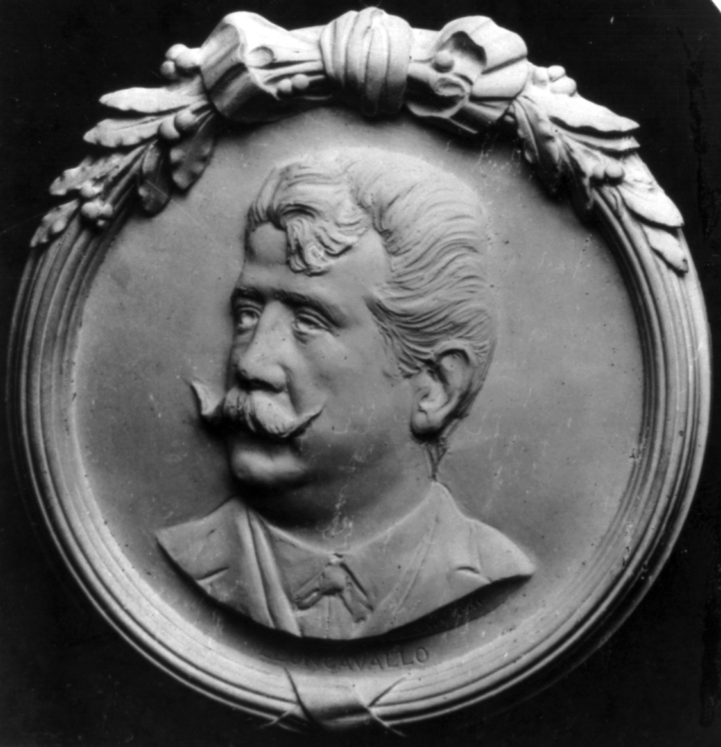 Medallion of Ruggero Leoncavallo, bust, facing left.